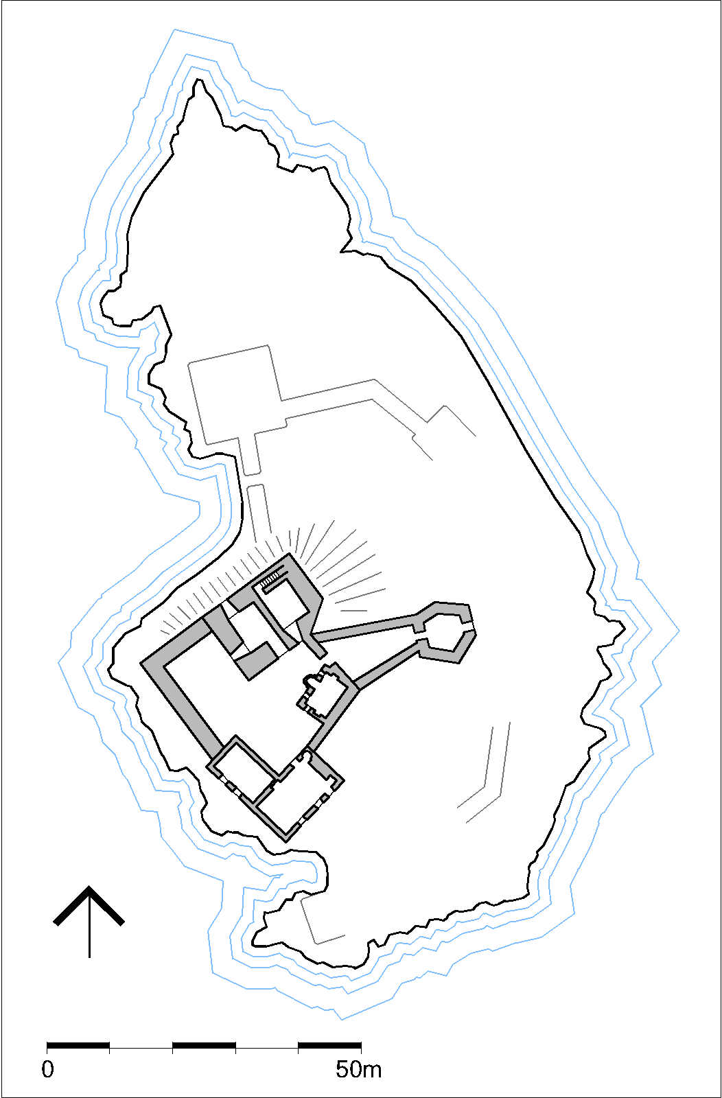 Eilean Donan Castle, Scotland. Plan of the castle as it was in the later 16th century, after addition of the hornwork